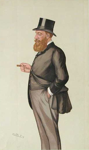 Caricature of Edward Robert King-Harman MP. Caption read "The King".